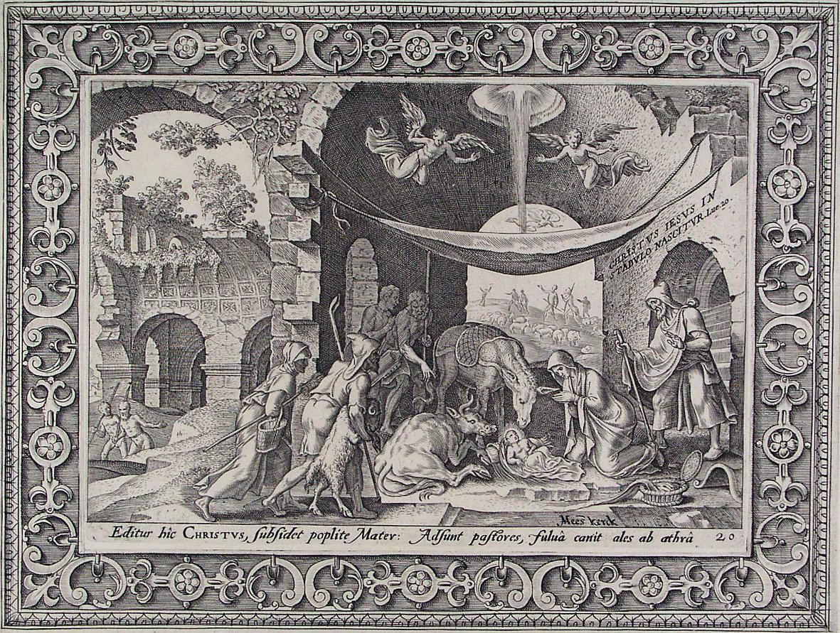 Part of the series {name }.